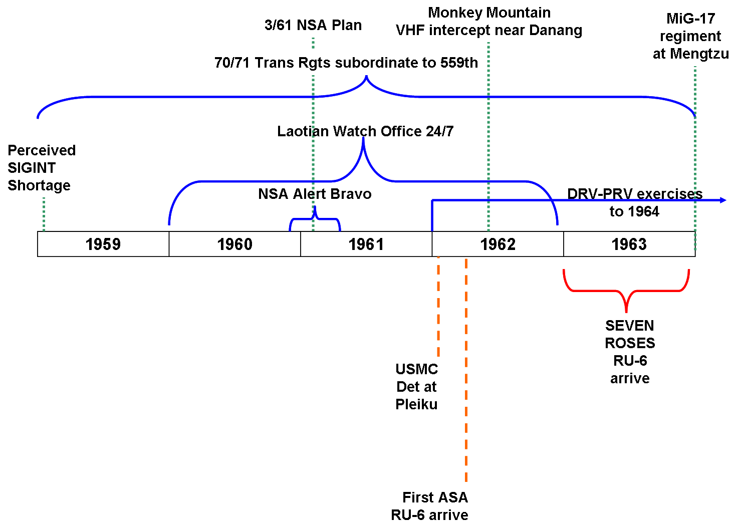 SIGINT chronology in Vietnam, 1959-1963